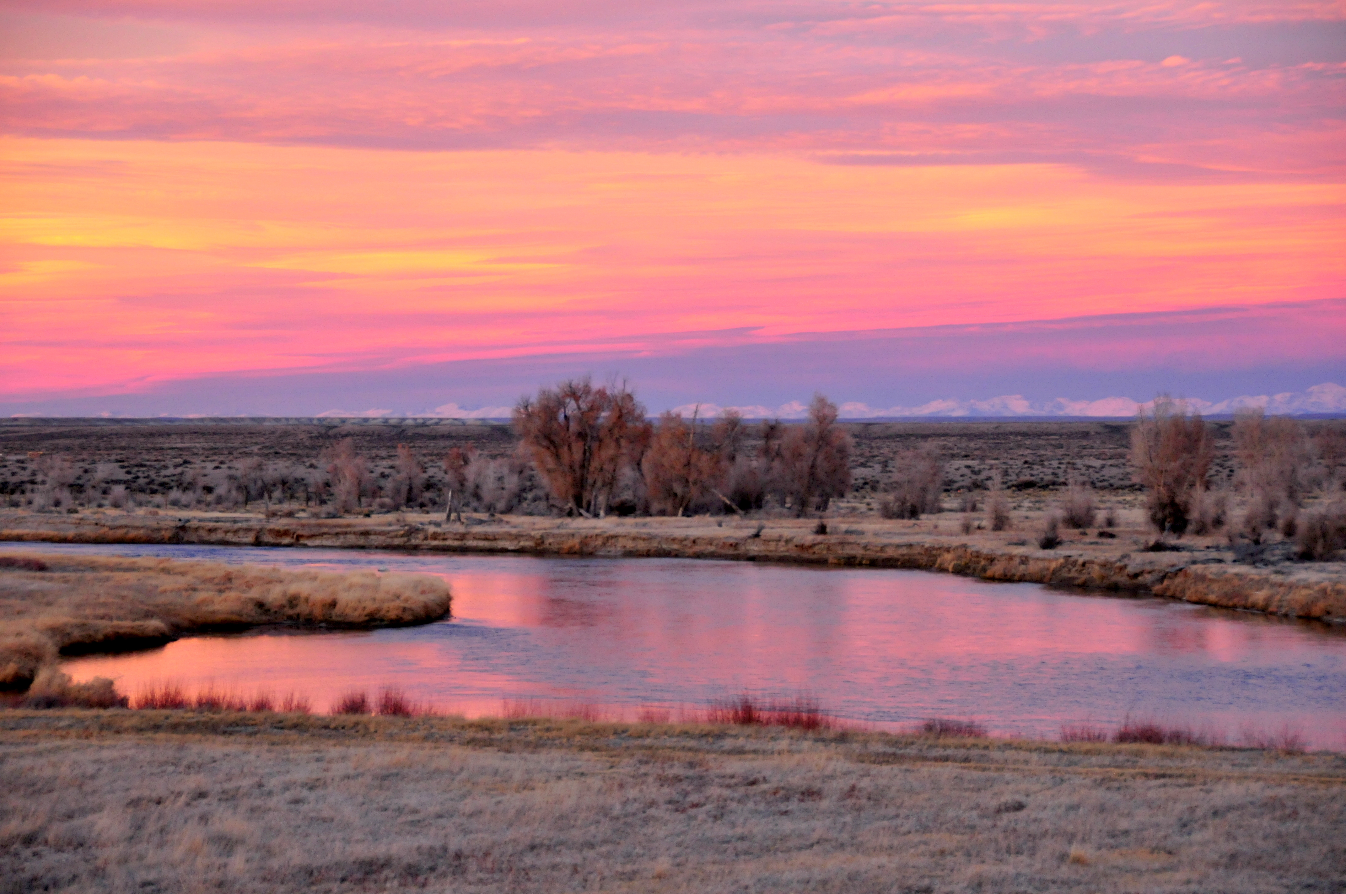 Seedskadee National Wildlife Refuge sunset on the Green River in the shadow of the Wind River Mountain Range, Wyoming, USA